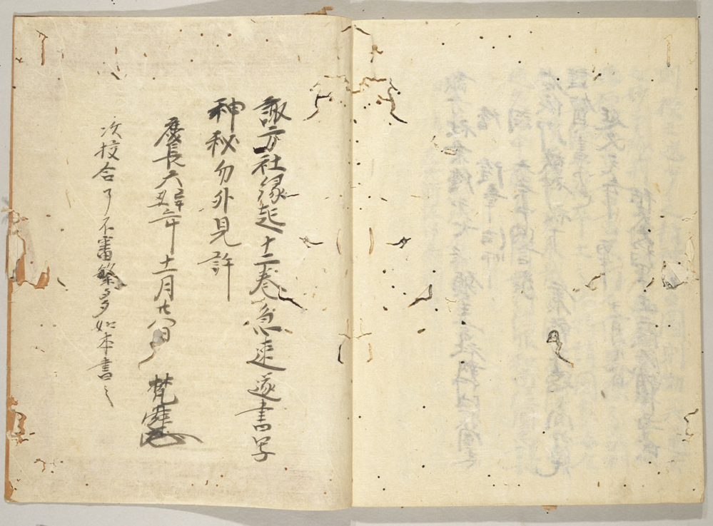 Colophon of the Suwa-sha Engi Emaki (also known as the Suwa Daimyōjin Ekotoba, originally written in 1356) copied by the monk Bonshun (梵舜) in 1601.